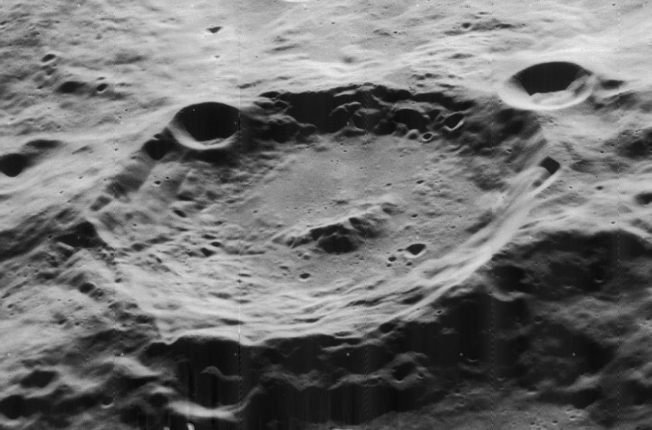 Oblique view of Langmuir crater, on the far side of the moon, facing west.